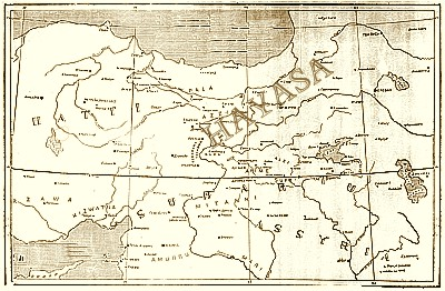 Location of Hayasa-Azzi.